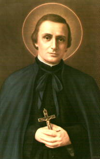 Pierre Chanel (1803–1841), a roman catholic saint